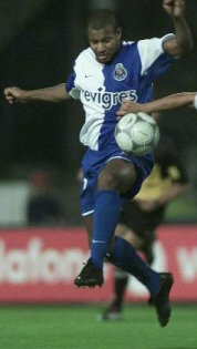 The Brazilian football player Renivaldo Pereira de Jesus, aka Pena